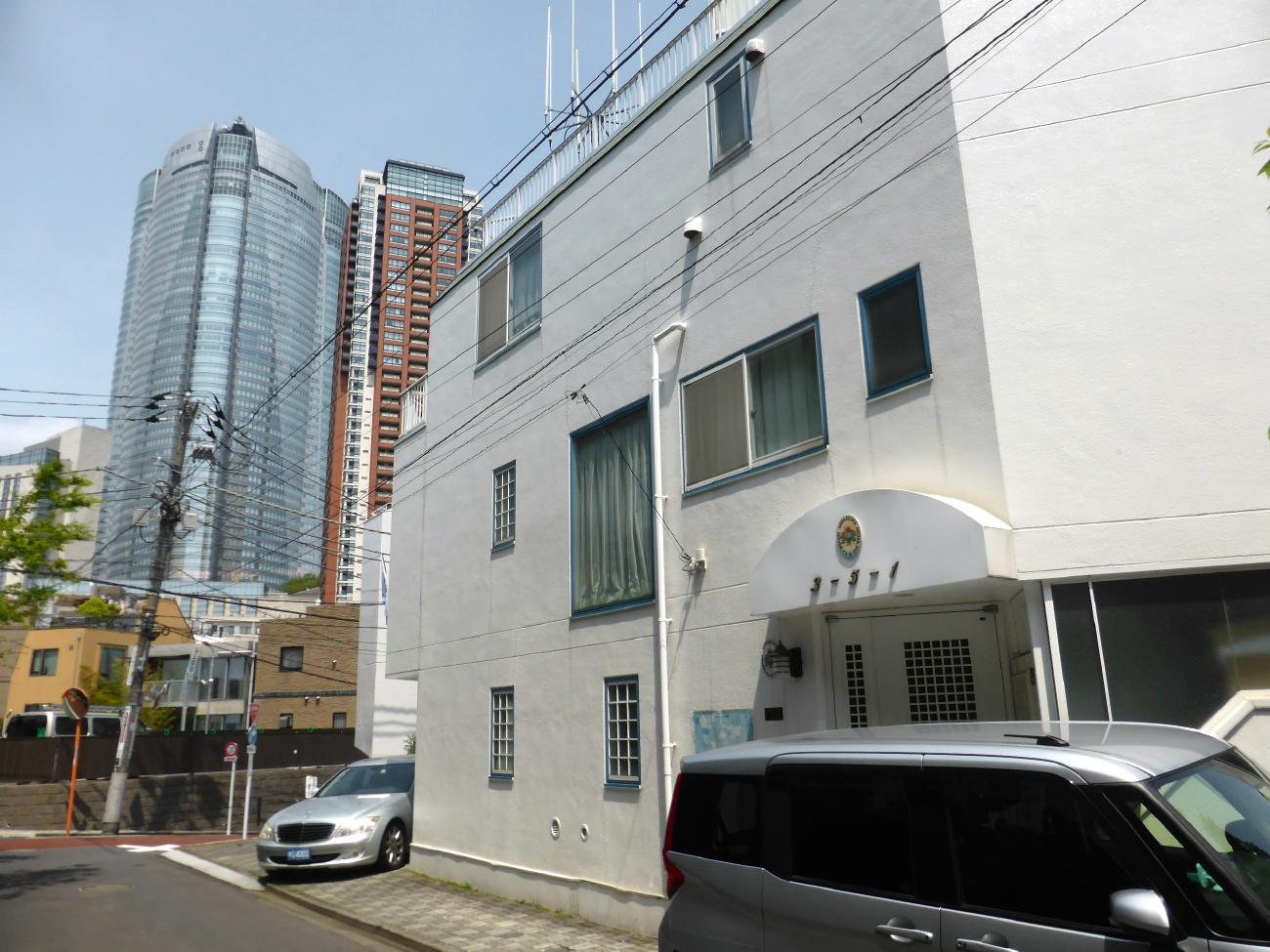 Embassy of San Marino and Roppongi Hills in Minato-ku, Tokyo.